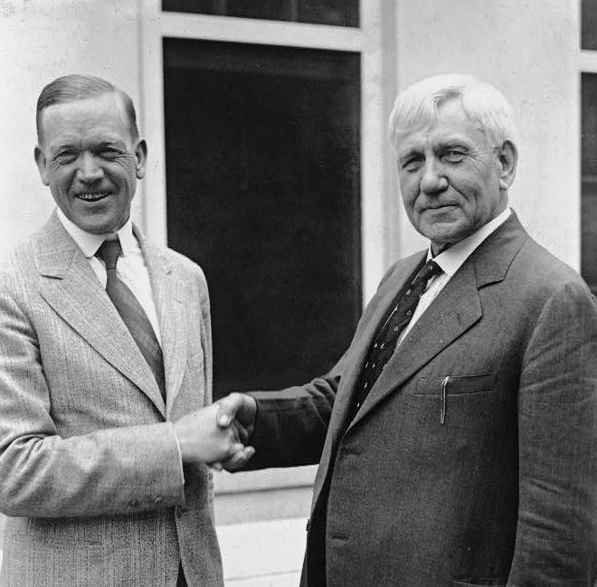 Senator Charles L. McNary and Rep. Gilbert N. Haugen, half-length portrait, standing at the White House, shaking hands.